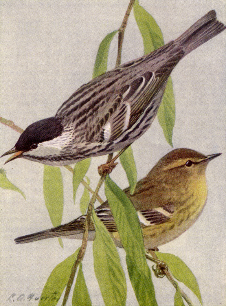 BLACK-POLL WARBLER. Male and Female.